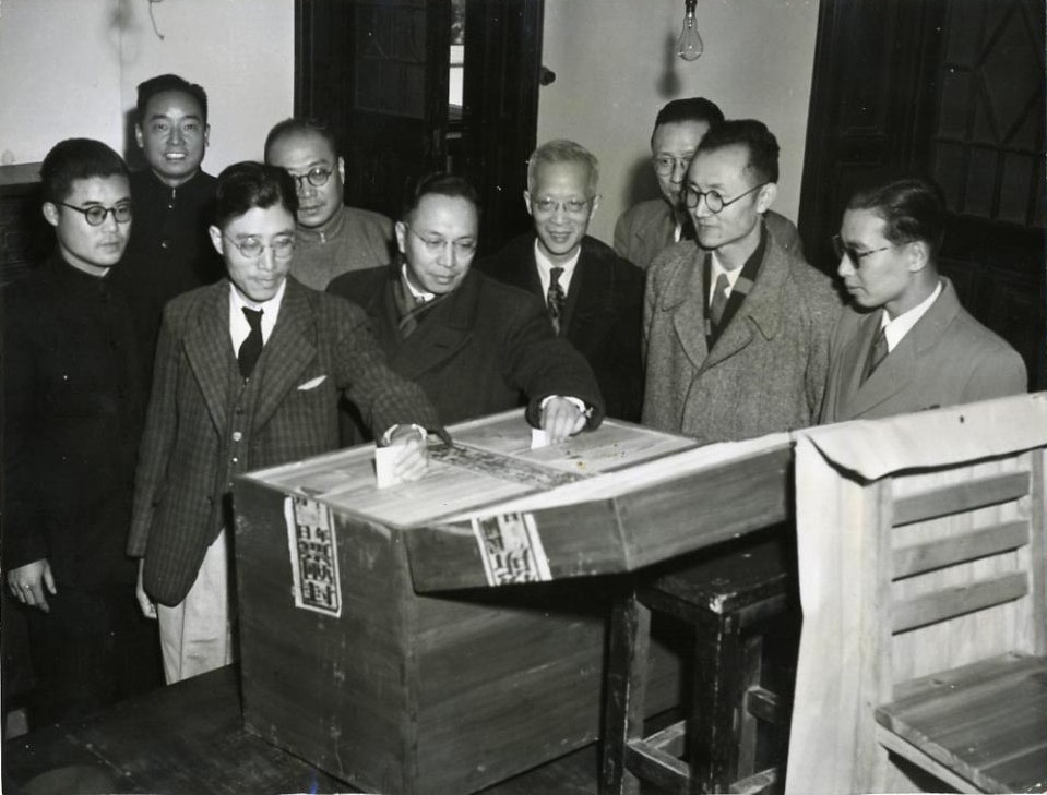 University professors from Jiao Tong University voted at a polling booth during the Republic of China legislative election in Shanghai China 1948. 1948年中华民国立法委员选举中上海某投票站一群上海交通大学的教授正在进行投票。